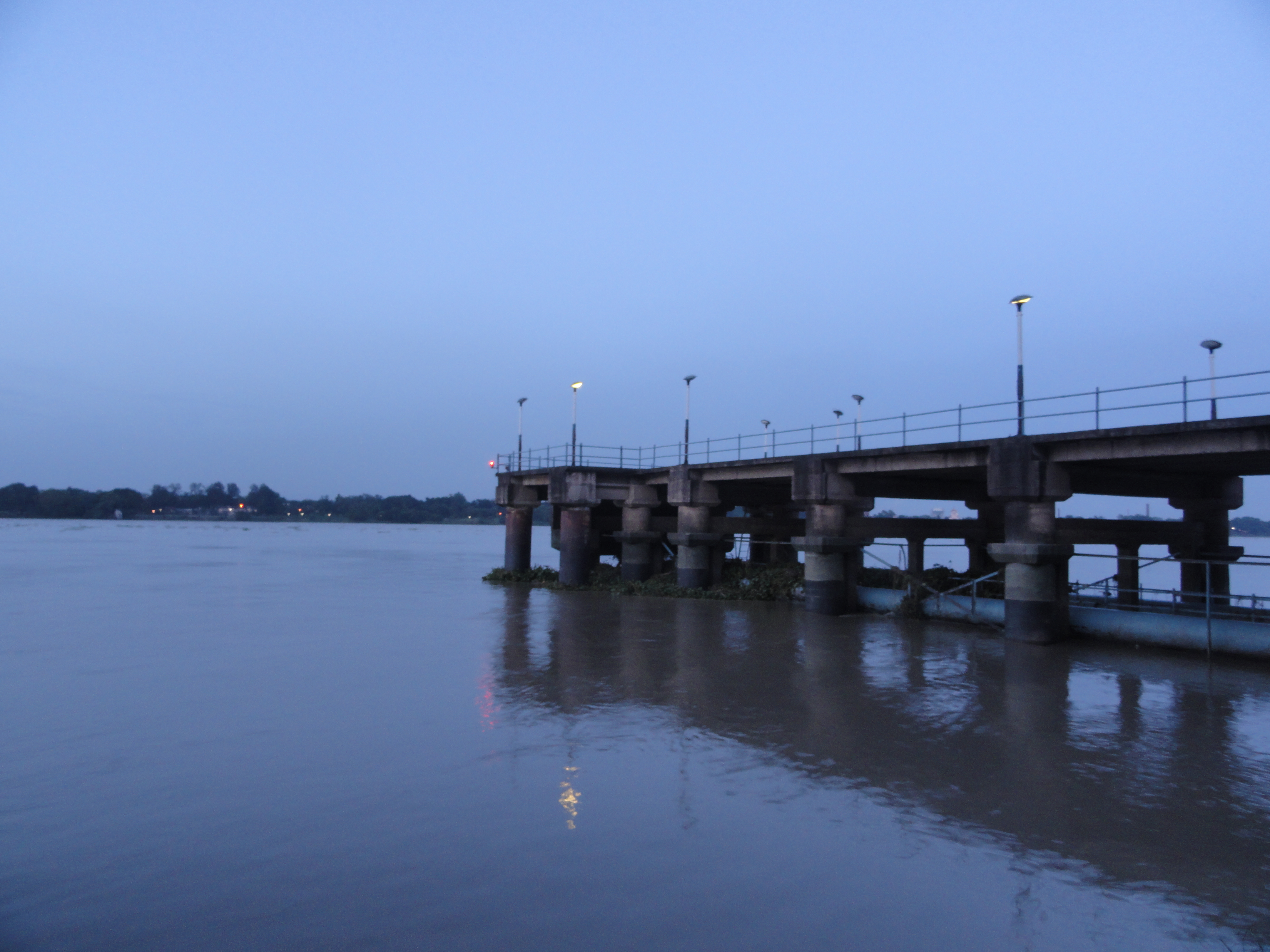 River view from the Serampore collage ghat.